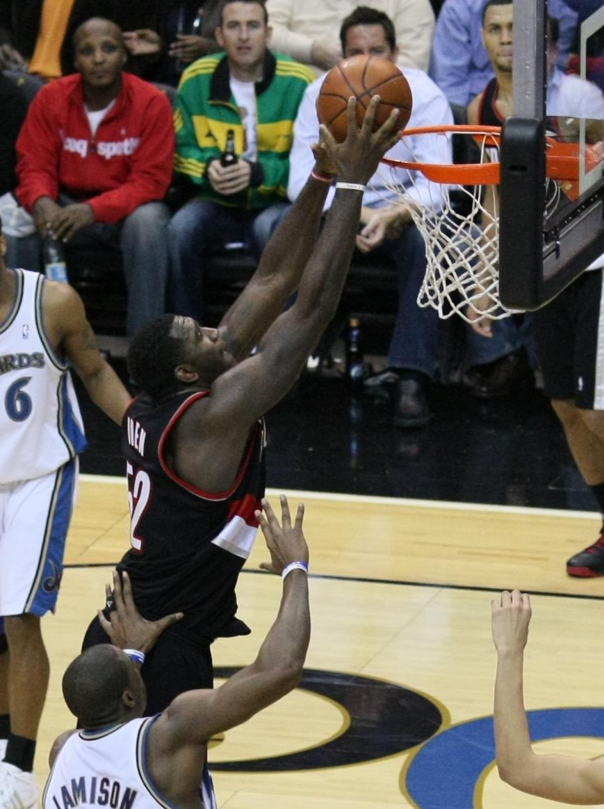 Greg Oden playing with the Portland Trail Blazers